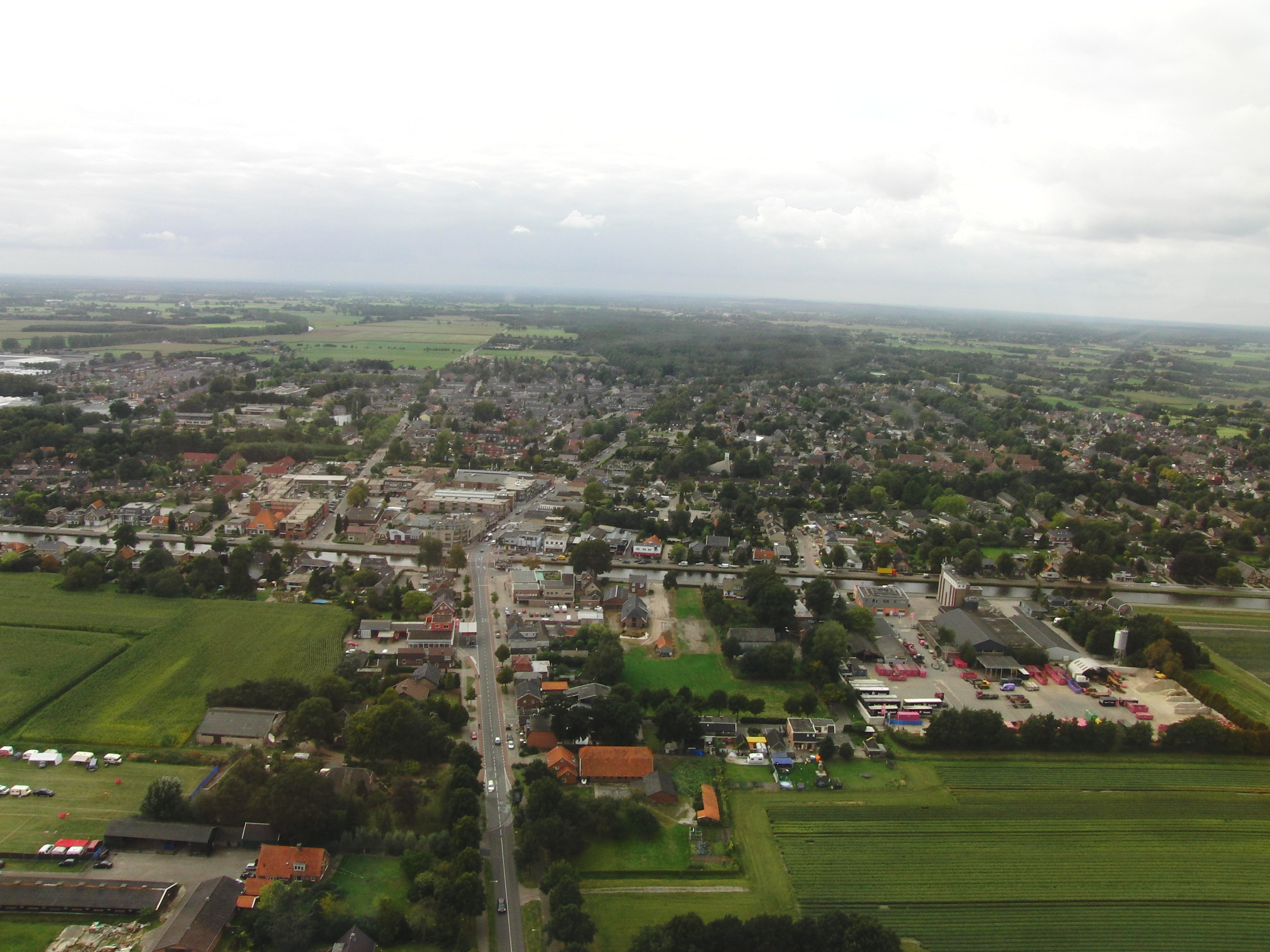 Vroomshoop, helicopter view